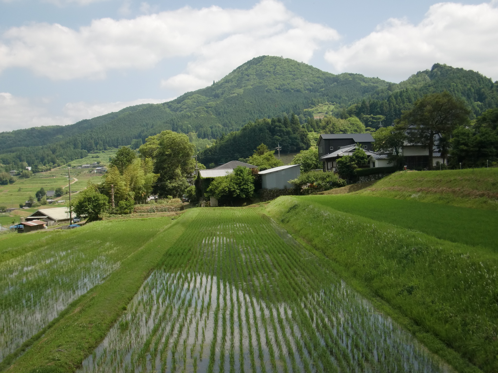 Early summer terrace field & Mikusa mountain Nose town Osaka